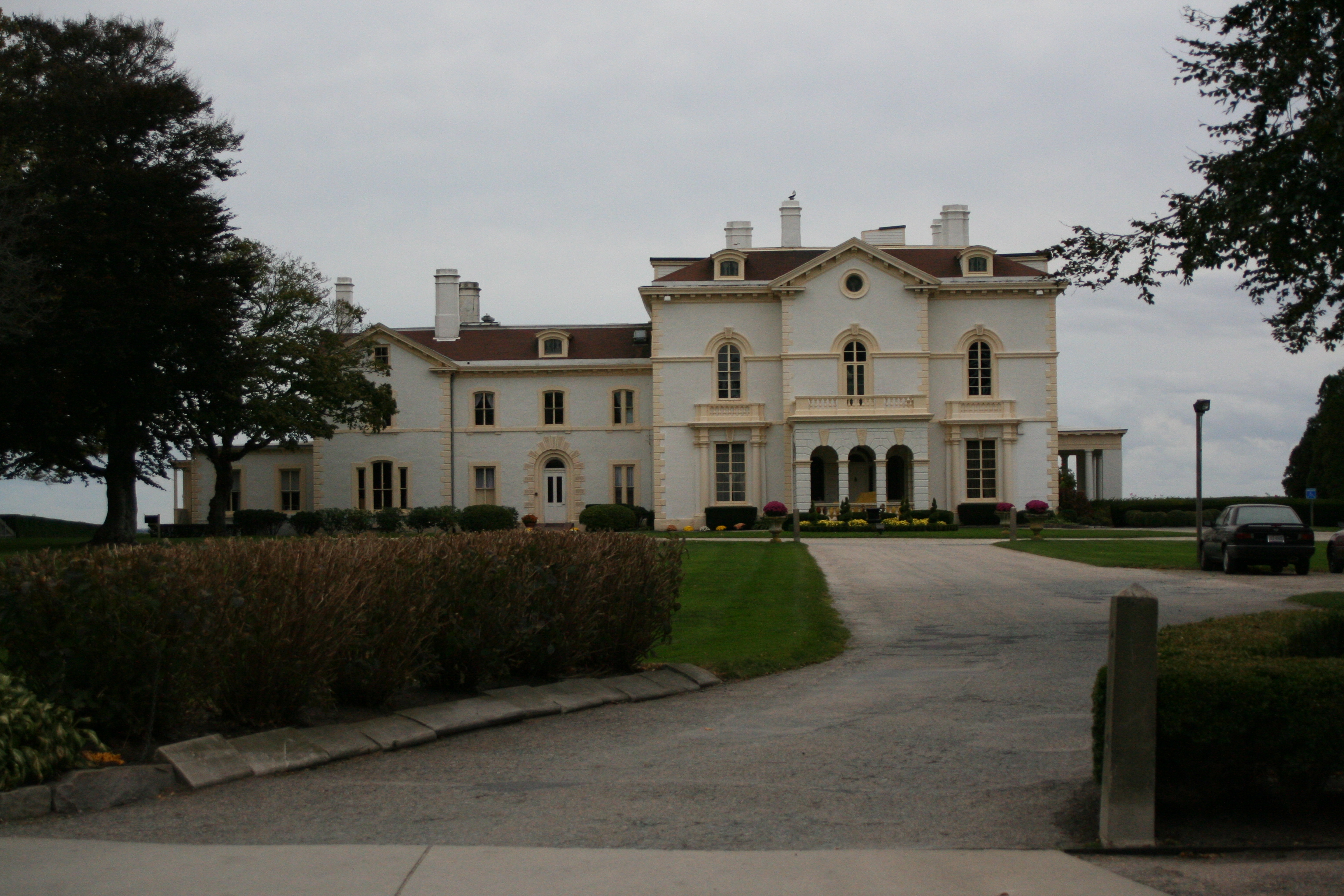 Beechwood, the mansion of the Astor family and a present day historic house museum, in Newport, Rhode Island. Designed by Andrew Jackson Downing and Calvert Vaux in 1851 and later renovatied by Richard Morris Hunt and McKim, Mead & White.